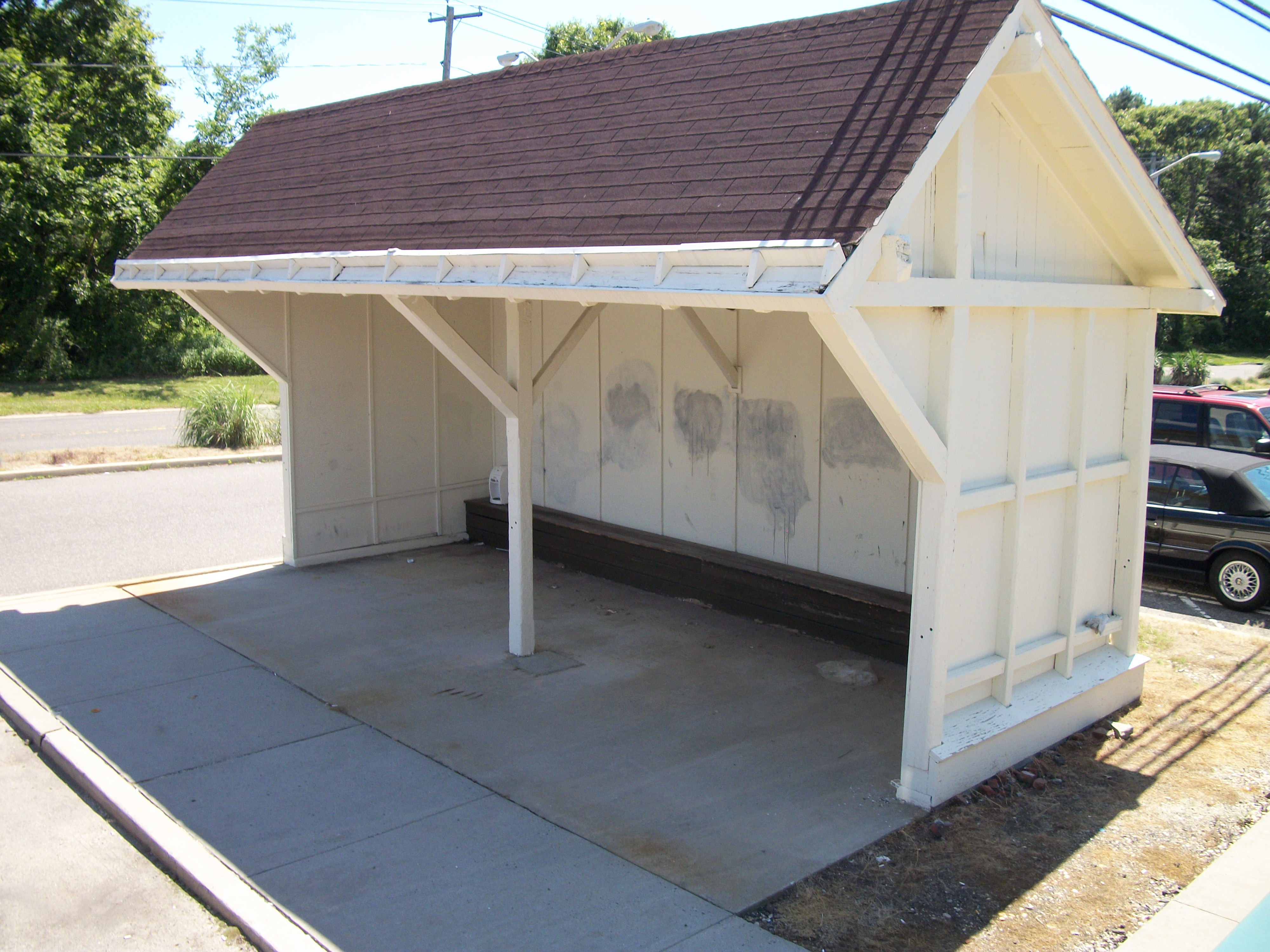 The original sheltered shed for the Great River (LIRR station) in Great River, New York. I tried to get one of the current station, which is a pair of modern high-level sheltered platforms, but I ended up taking a crappy shot of one of my feet, and I'm pretty sure you don't want to see that.